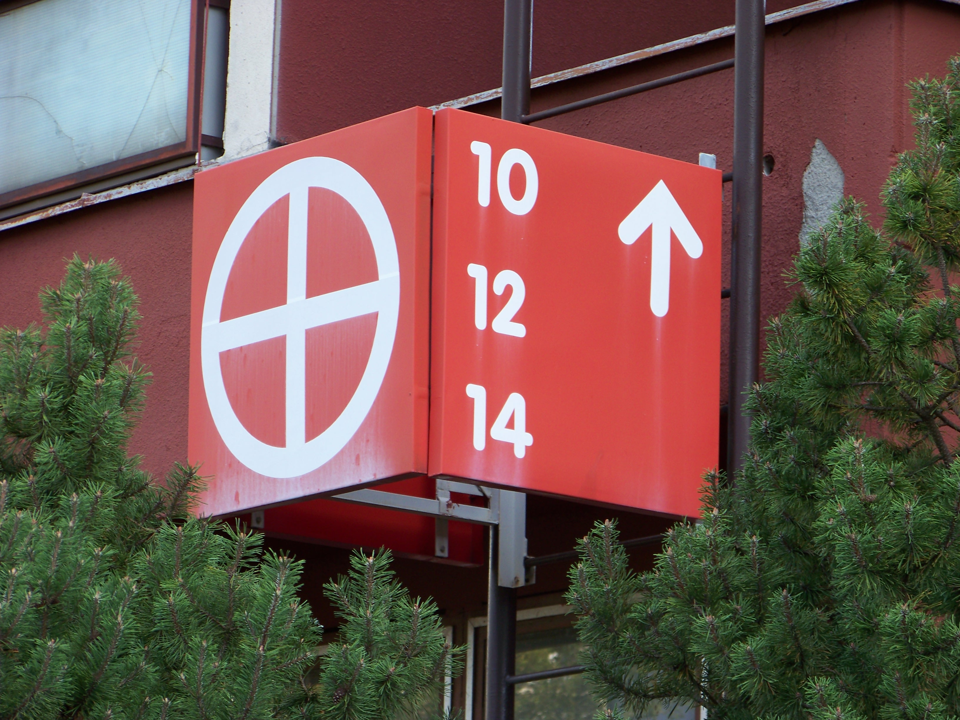 Prague-Chodov, the Czech Republic. Horní Roztyly Housing Estate, a housing block in Filipova street.